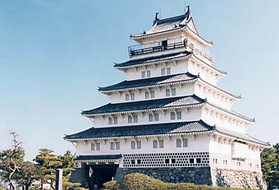 Shimabara Castle in Shimabara, Nagasaki Prefecture, Japan. I took this photograph and contribute it to the public domain.